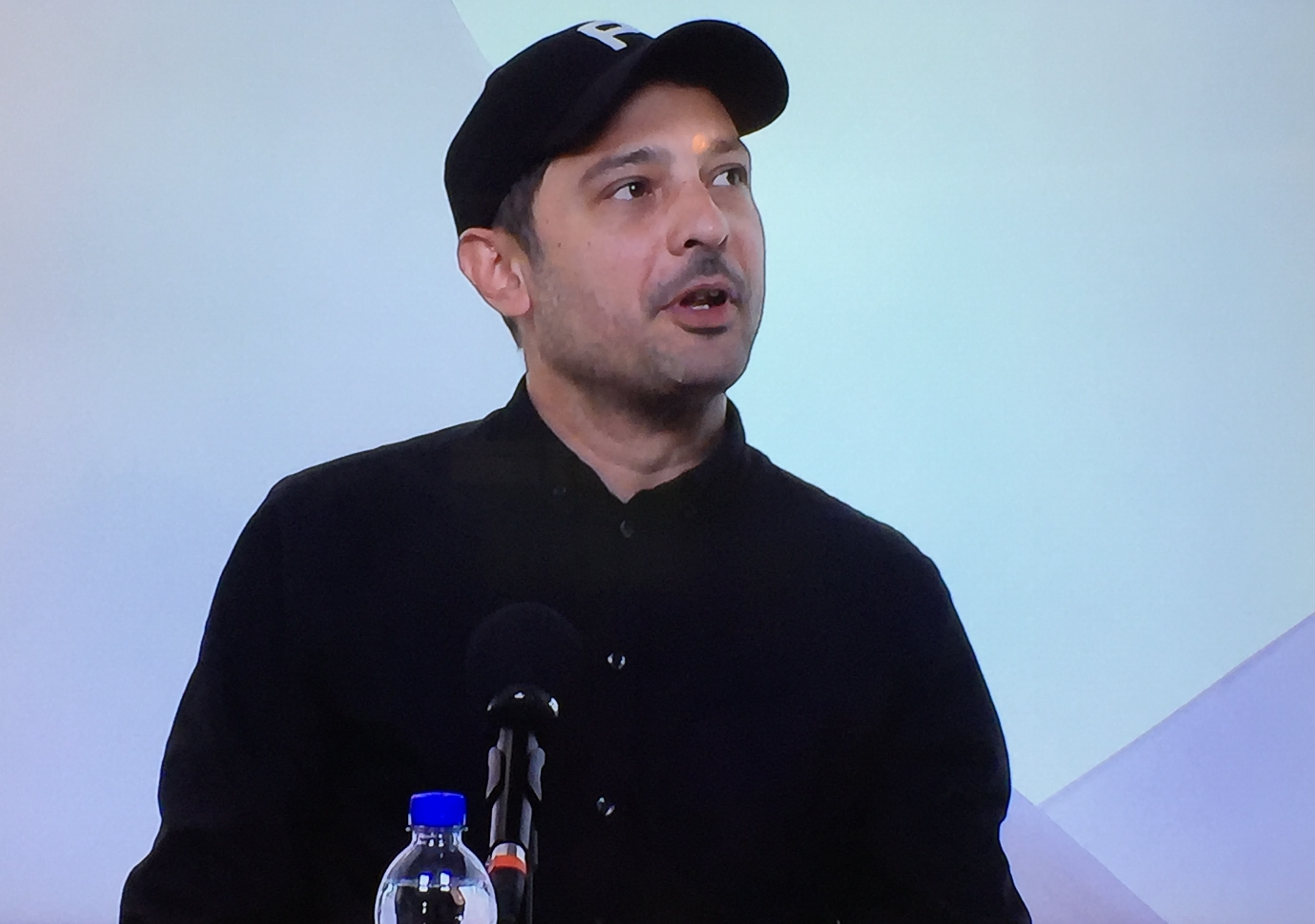 Sander van de Pavert (Kunststof, July 2020)